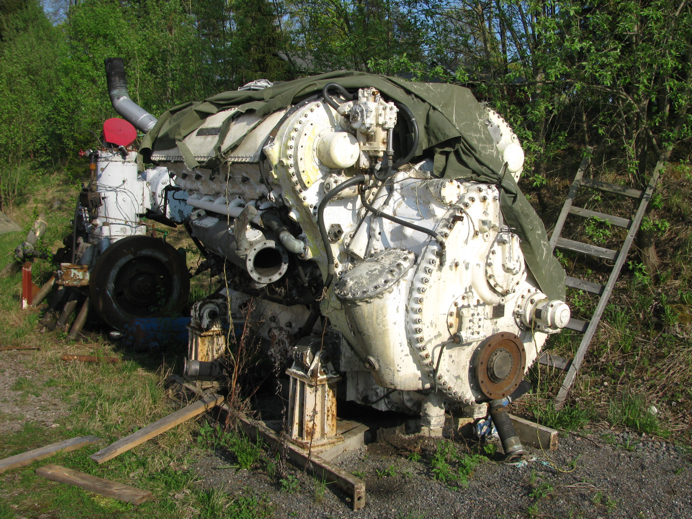 Napier Deltic engine.